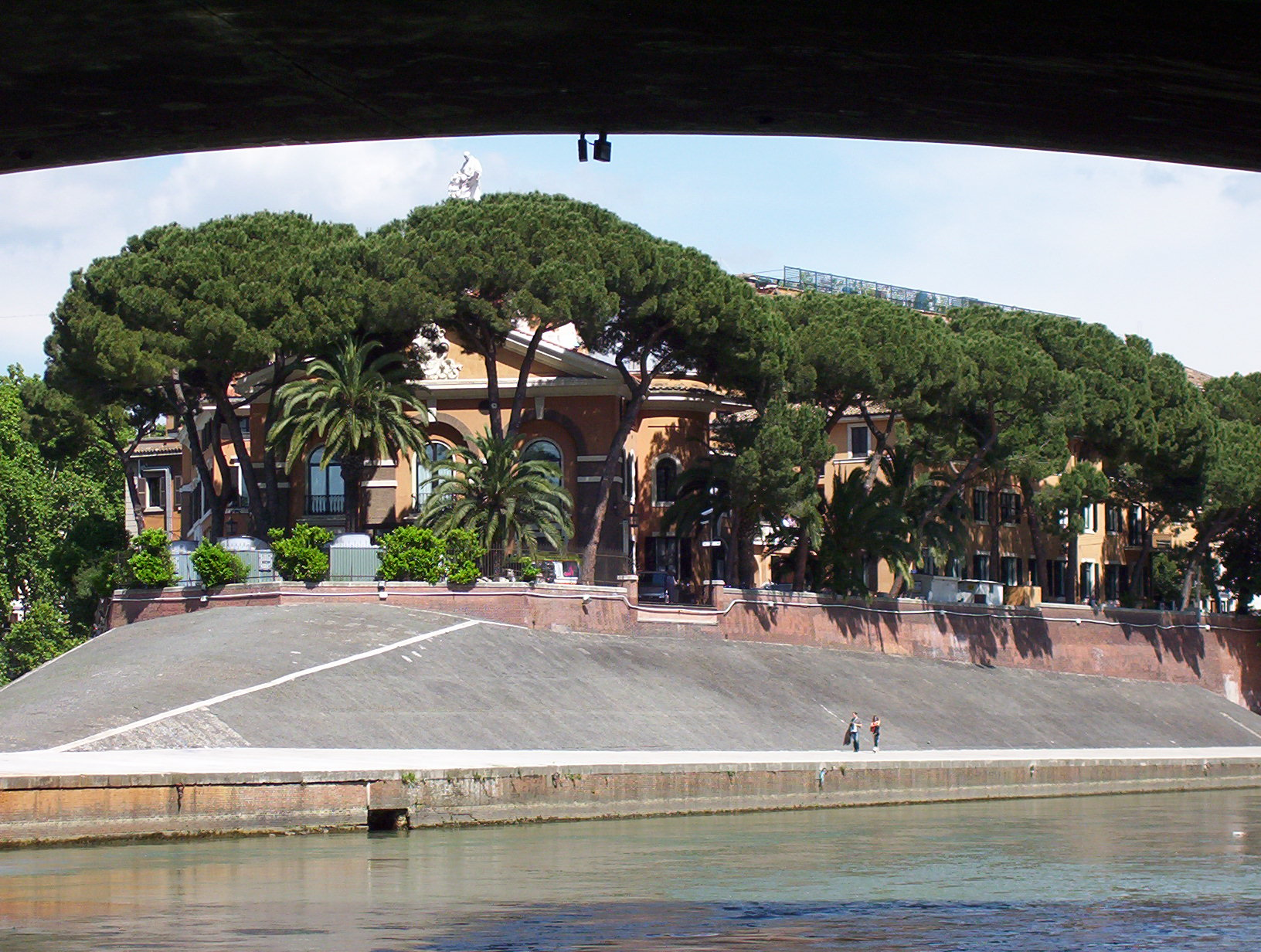 Western end of Isola Tiberina. Note the travertine stone giving the distinctive trireme shape. By Howard Hudson (2006)